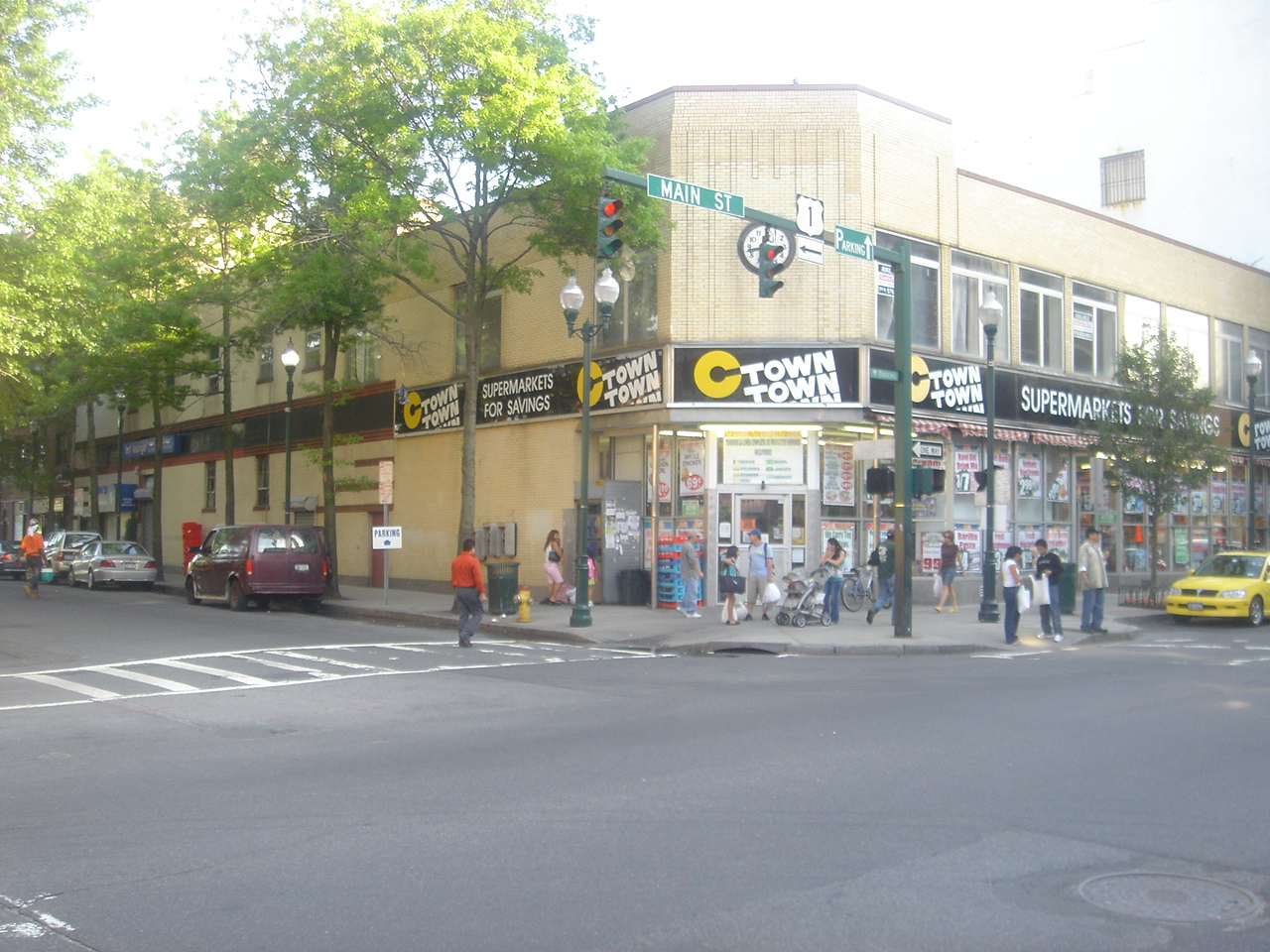 C-Town Supermarket on the southwest corner of Northbound U.S. Route 1 (Main Street) and Division Street in New Rochelle, New York.Original description; "I took this photo."